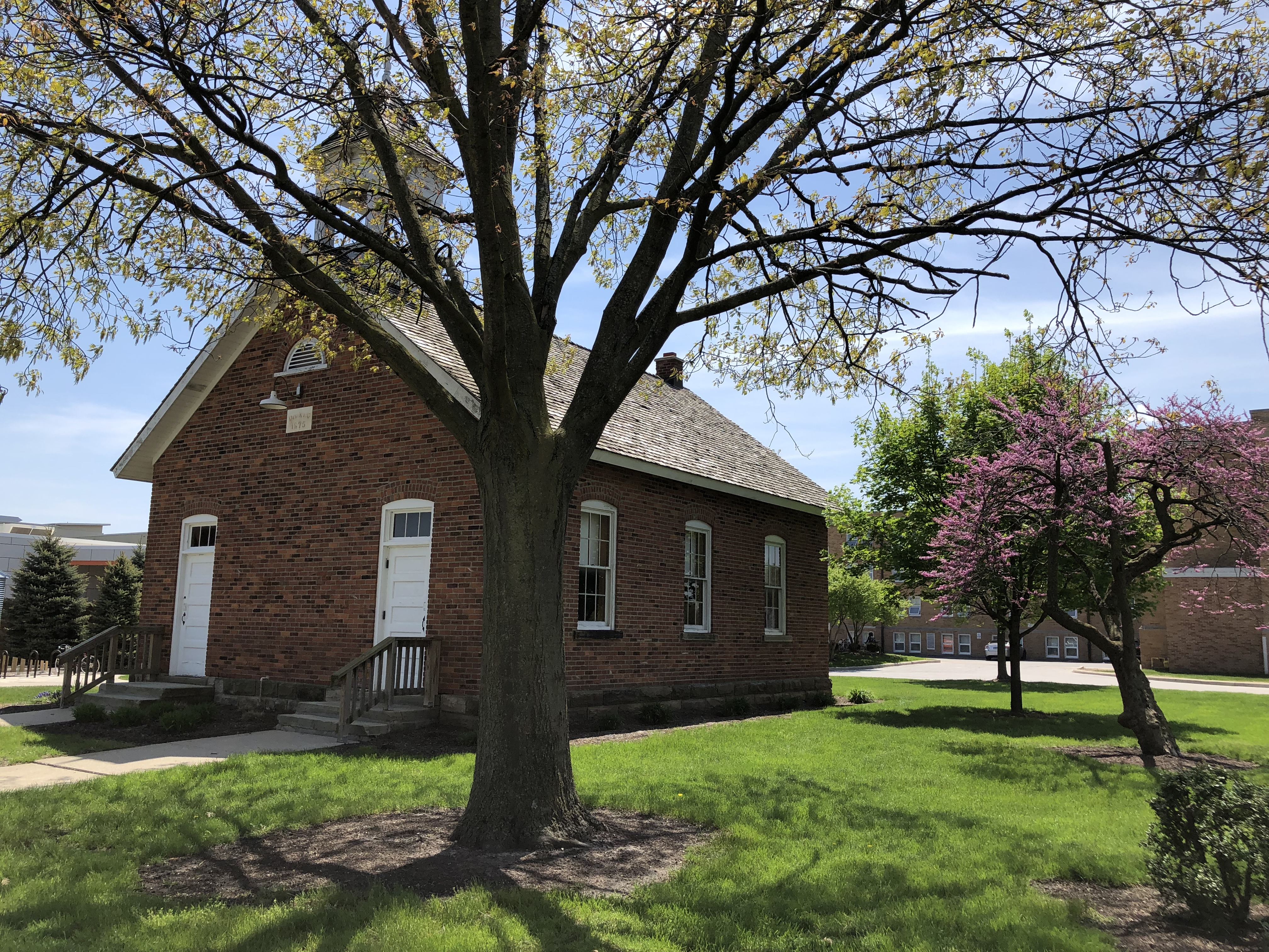 A former one room school house of Huron county Ohio, built in 1875. Today serves as a museum.